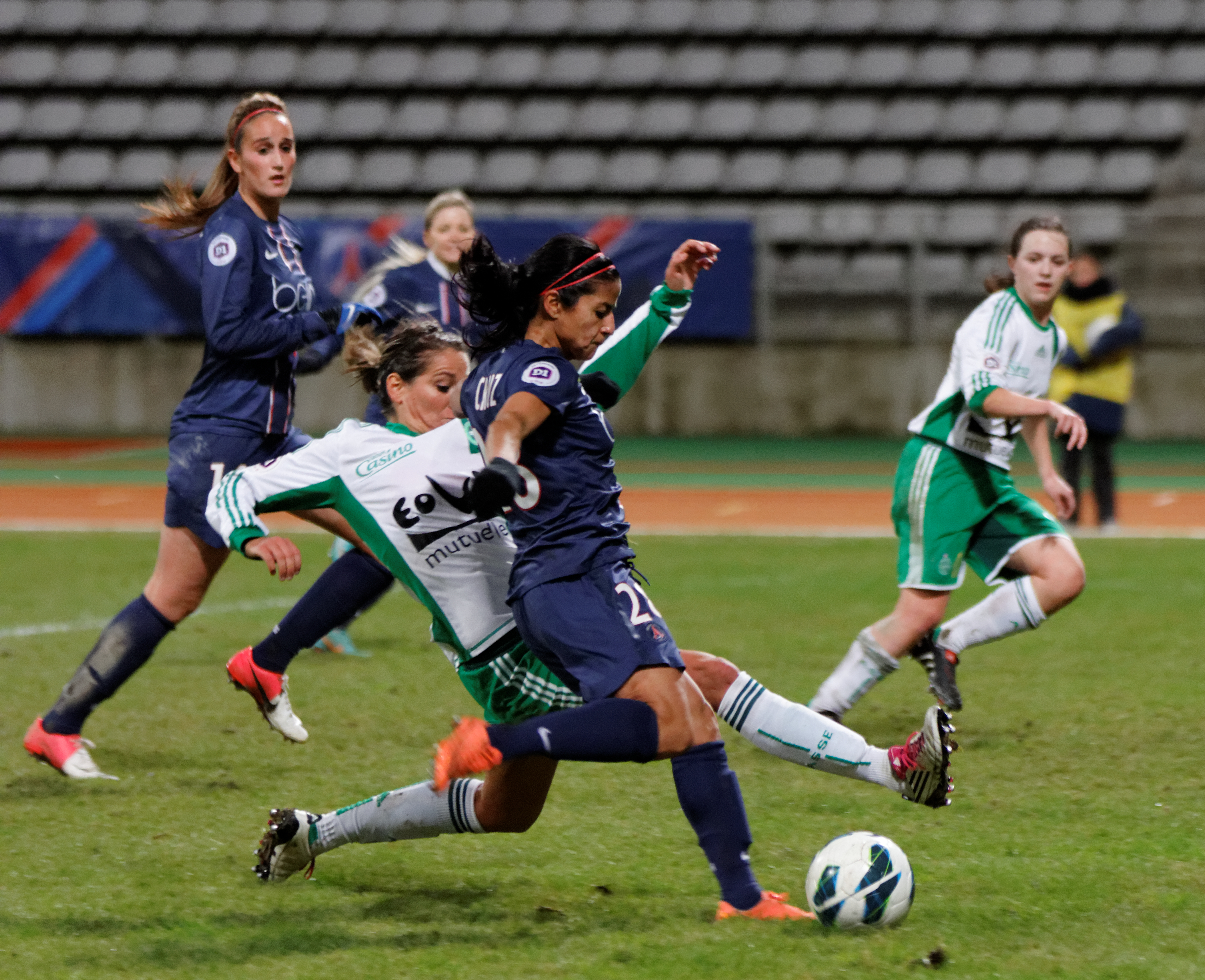 PSG-AS Saint-Étienne, december 16th, 2012. Shirley Cruz Traña (PSG).